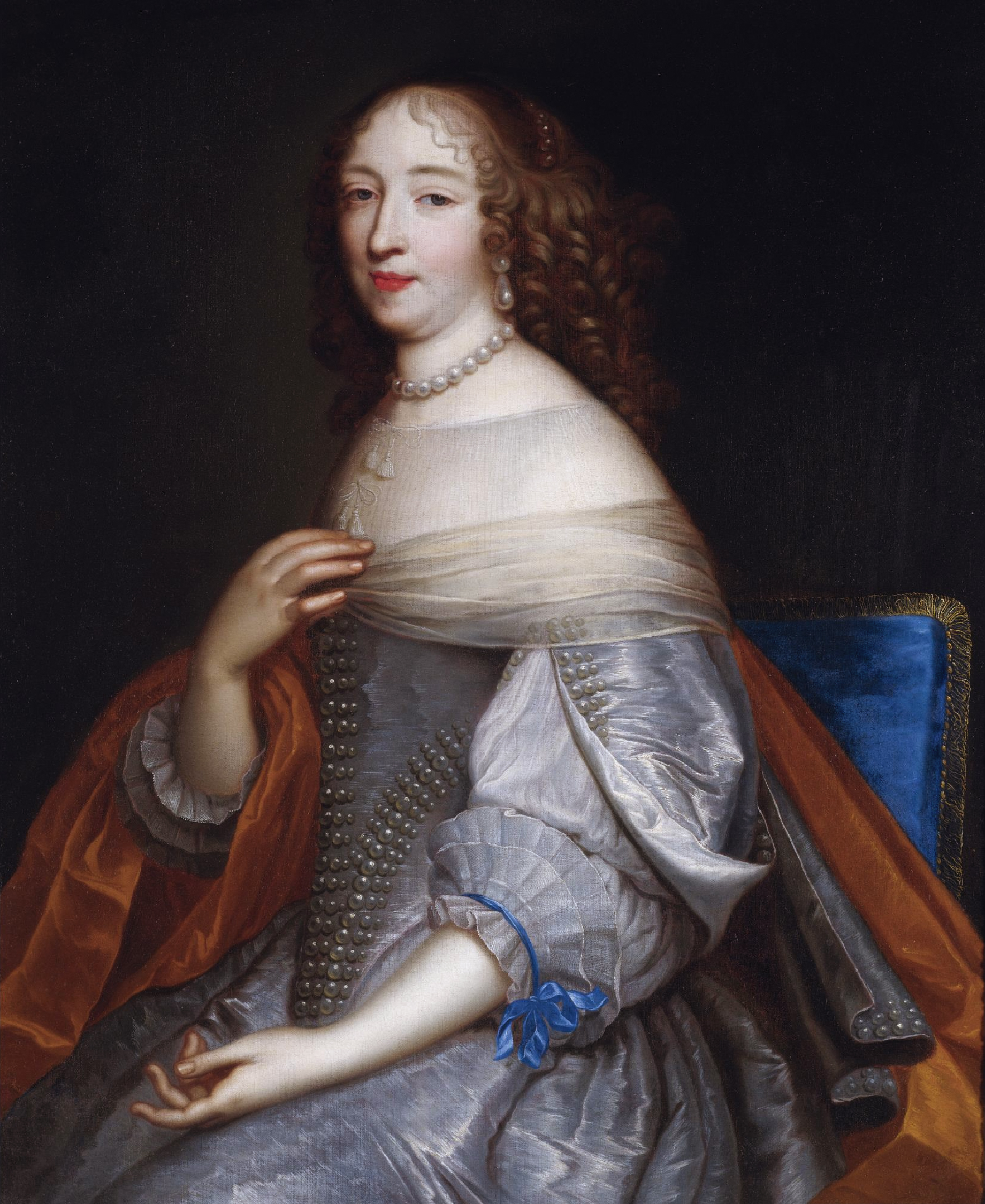 Catherine Charlotte de Gramont (1639-1678), Princess of Monaco